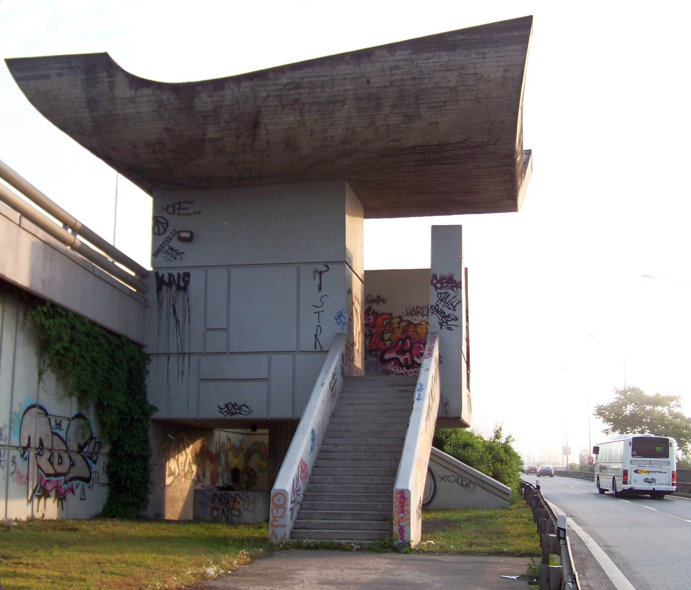 Hlubočepy, Prague, the Czech Republic. A concrete sculpture on the Barrandov Bridge.